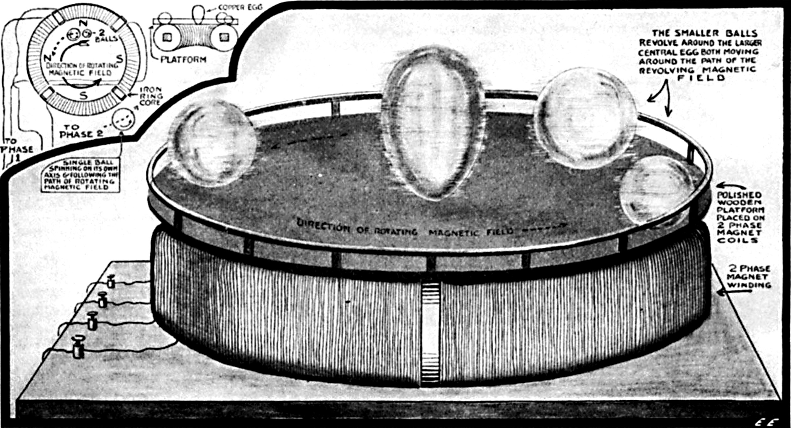 Drawing from the March 1, 1919 ELECTRICAL EXPERIMENTER explaining how Nikola Tesla's electric motor demonstration at the 1893 Chicago Columbian Exposition, called the "Egg of Columbus", worked.